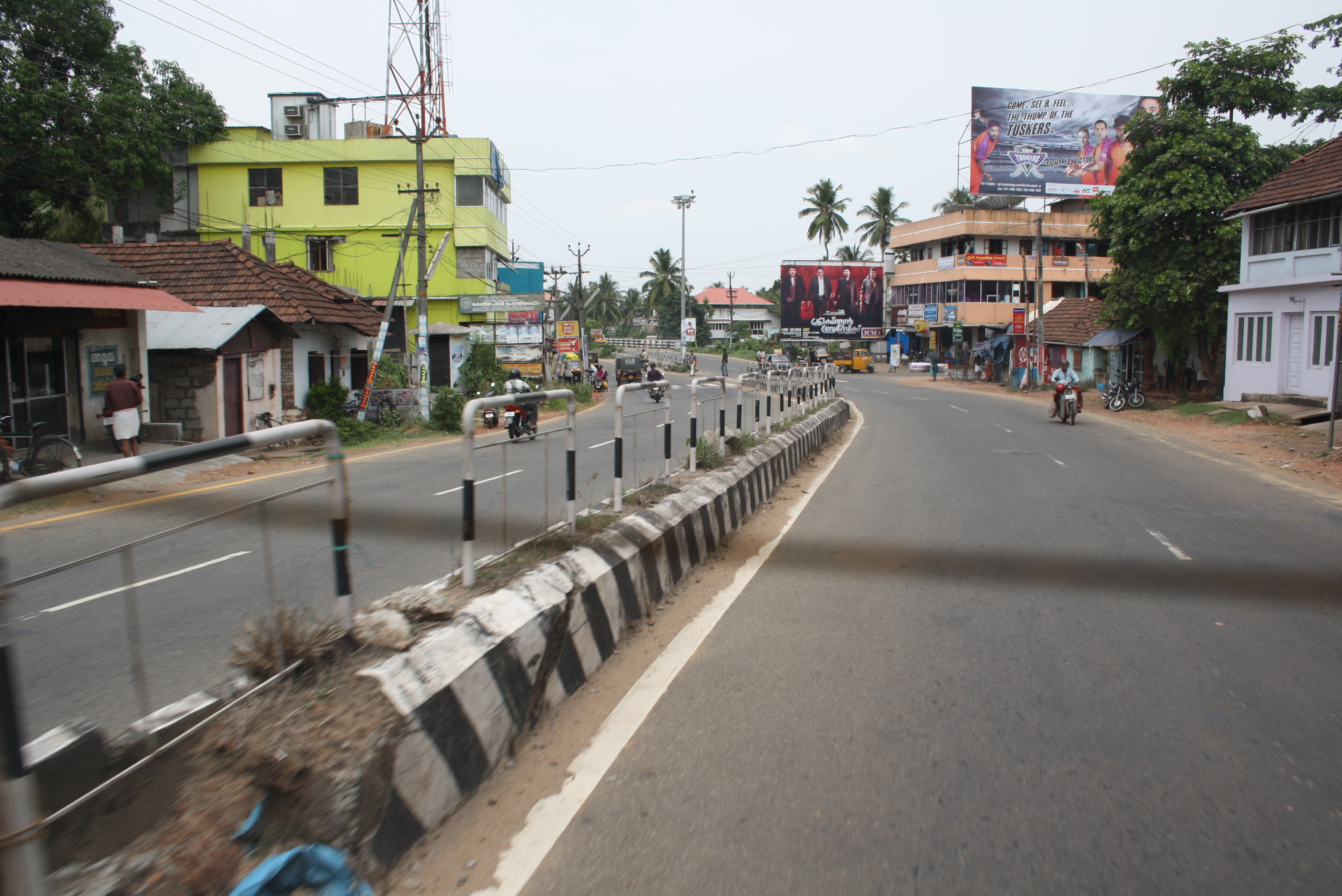 Thrissur-Shornur Road in Thrissur City